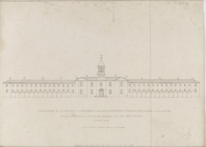 Drawing labeled District Lunatic Asylum, Falls Road, Belfast and the District Lunatic Asylum, Strand Road, Londonderry (Derry)